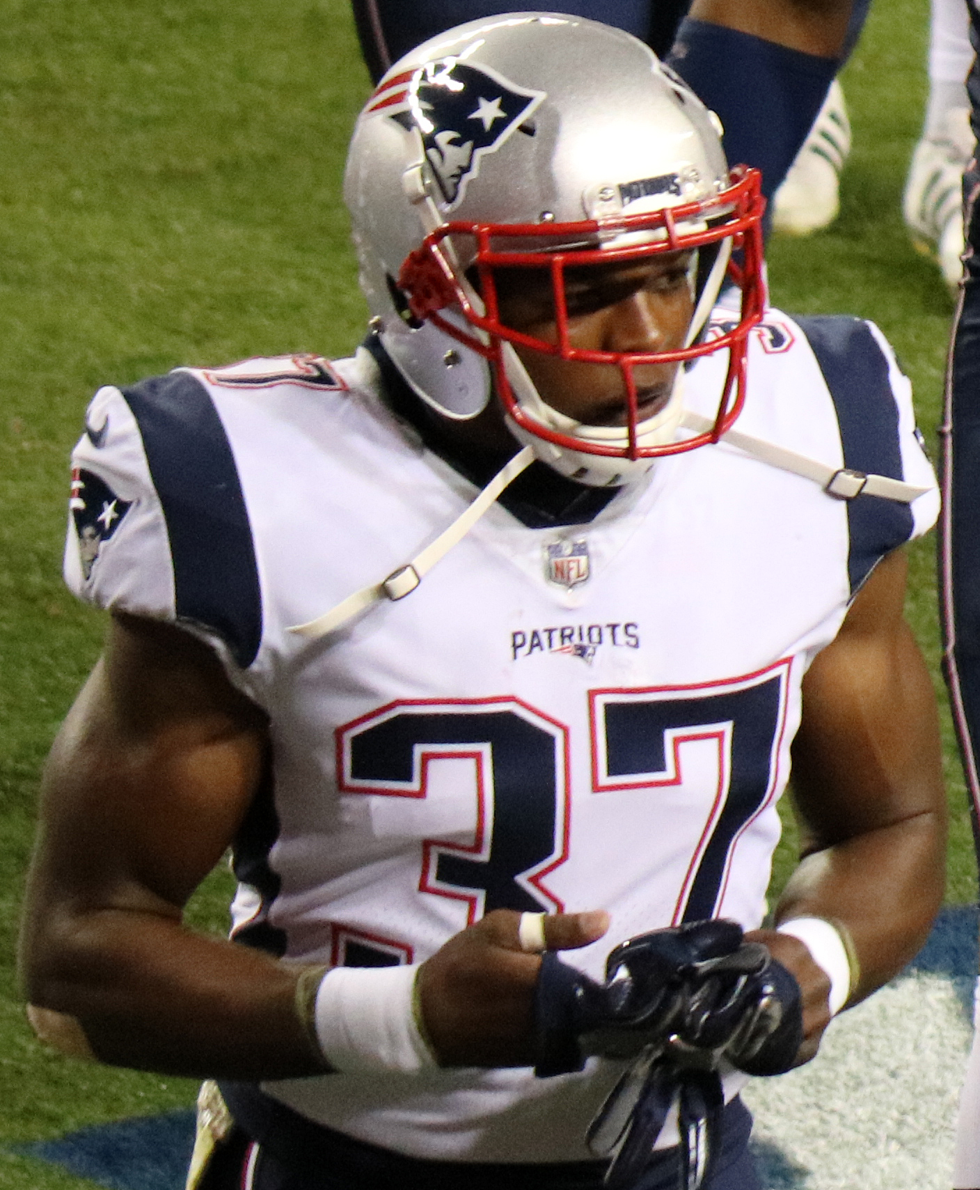 Jordan Richards, a National Football League player.